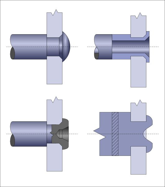 Direct riveting rivets and riveted joints